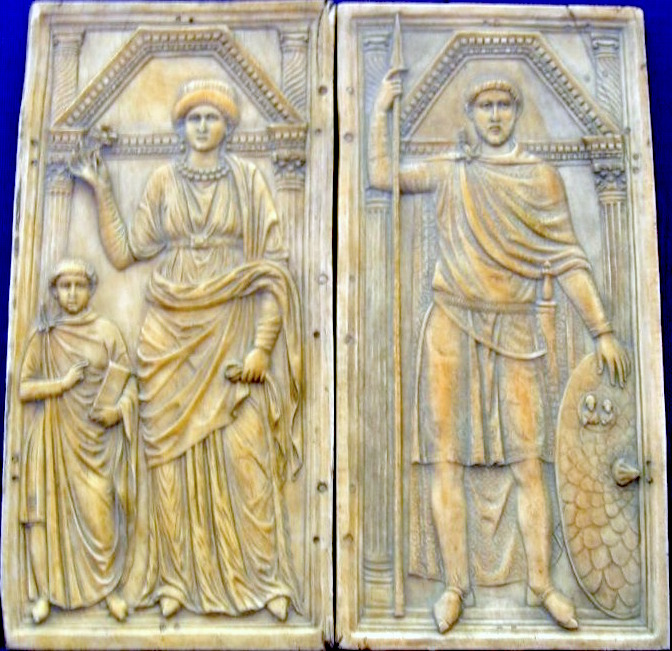 Germanic-Roman general Stilicho with his wife Serena and his son Eucherius. Copy of an ivory carving. The original dyptich, carved circa 395, is in Monza (Italy).